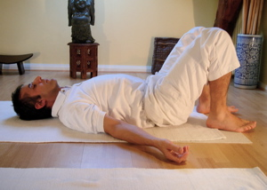 Shavasana, the yoga relaxation pose, modified with knees bent for people with low back pain